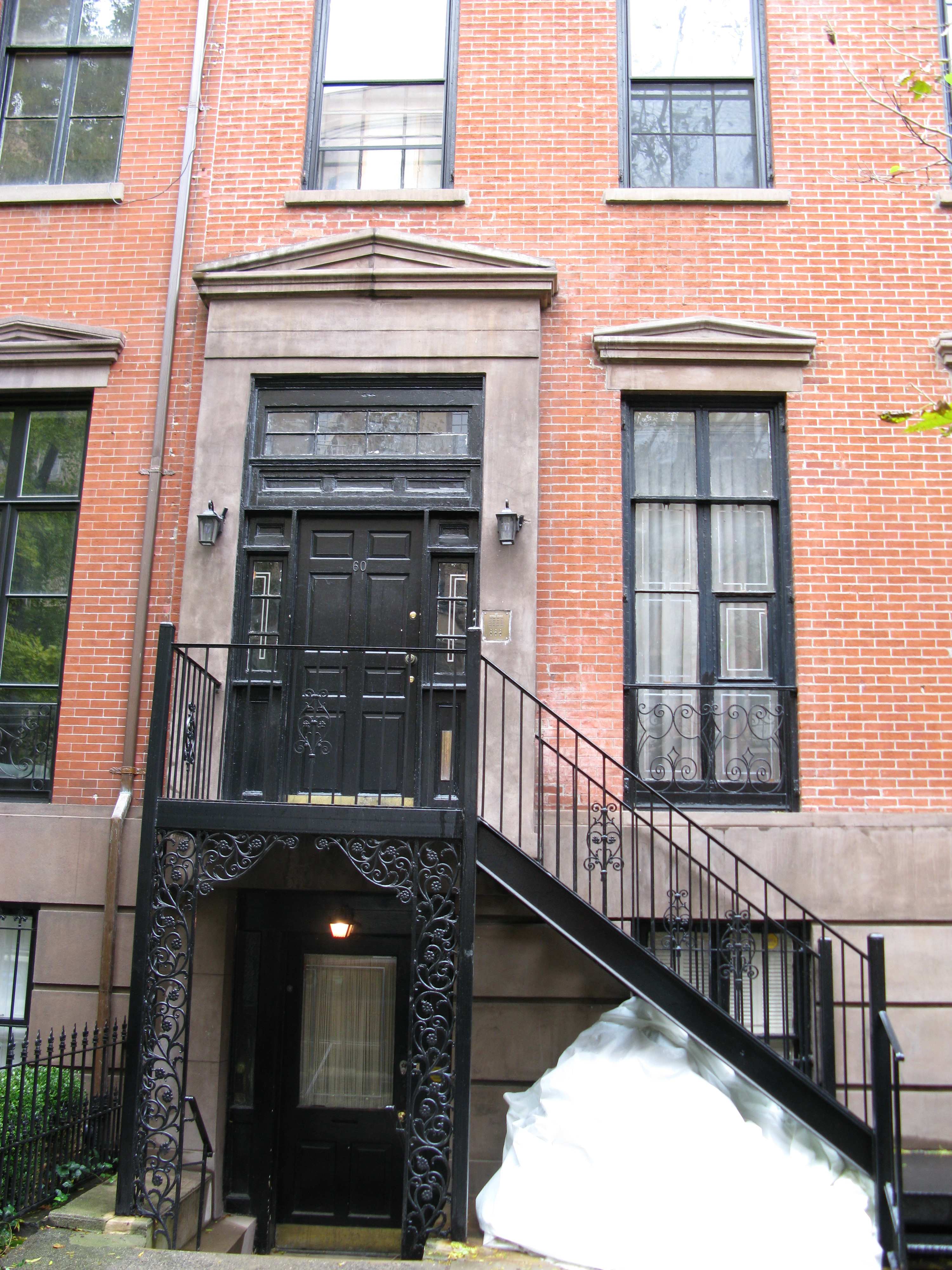 Former home of late actor John Belushi